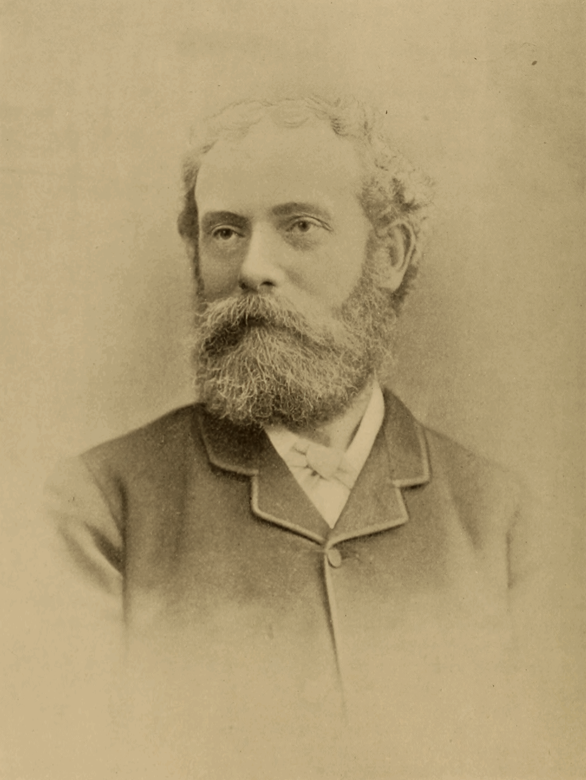 Cassier's Magazine of New York had an article about the British naval architect and shipbuilder John Isaac Thornycroft in Volume IX, 1895-96, page 398-408. It was accompanied by a number of illustrations, including this portrait on page 322. Downloaded in jp2 format, cropped by uploader and saved in png format.